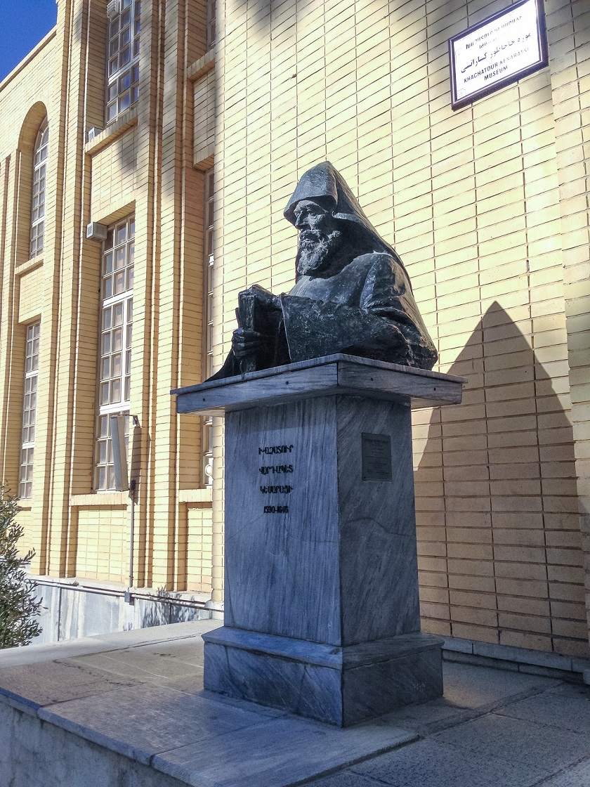 Statue of Khachatur Kesaratsi, founder of the first publishing house in Iran, at the entrance of the Museum of Khachatur Kesaratsi, in front of the Holy Savior Cathedral (the Vank), New Julfa, Esfehan (Isfahan), Iran